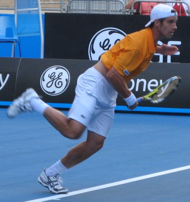 Close-up of Gasquet from Richard Gasquet Australia2008.jpg